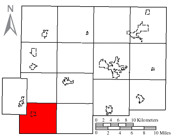 Made by the US Census and modified by myself